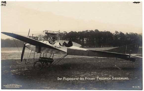 The aircraft of Prince Friedrich Sigismund of Prussia (1891–1927)